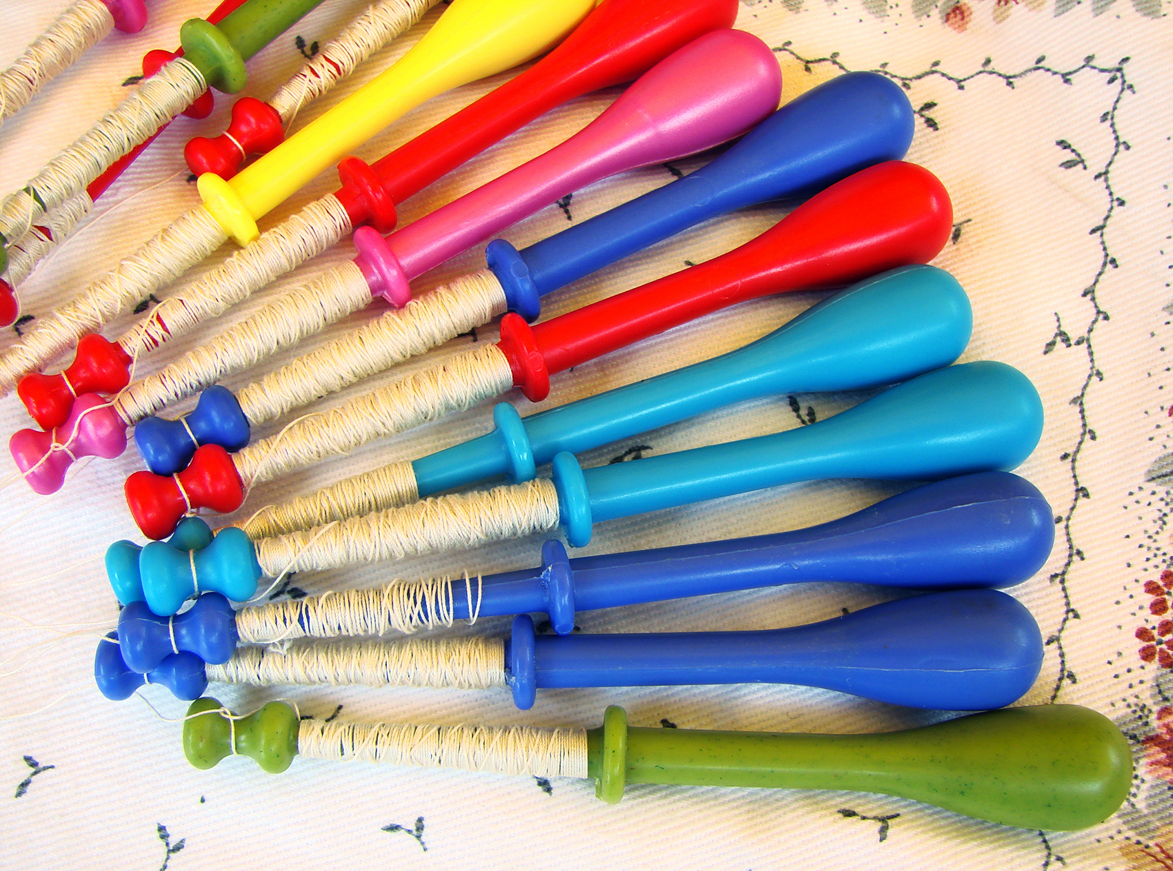 Bobbins for lace.